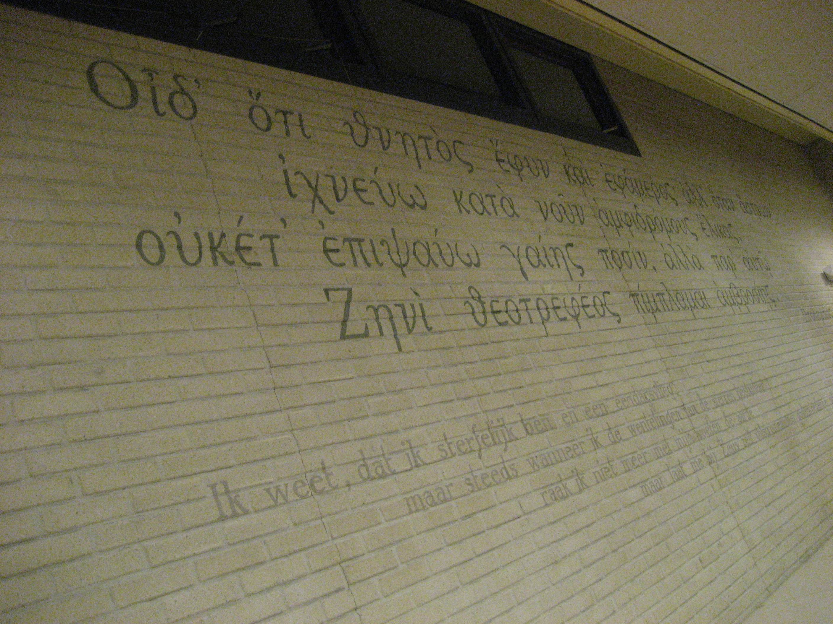 Poem (epigram) by Ptolomaeus on a wall in the Stedelijk Gymnasium Leiden (The Netherlands). English translation: I know that I am mortal by nature, and ephemeral; but when I trace, at my pleasure, the windings to and from of the heavenly bodies I no longer touch Earth with my feet: I stand in the presence of Zeus himself, and take my fill of ambrosia.